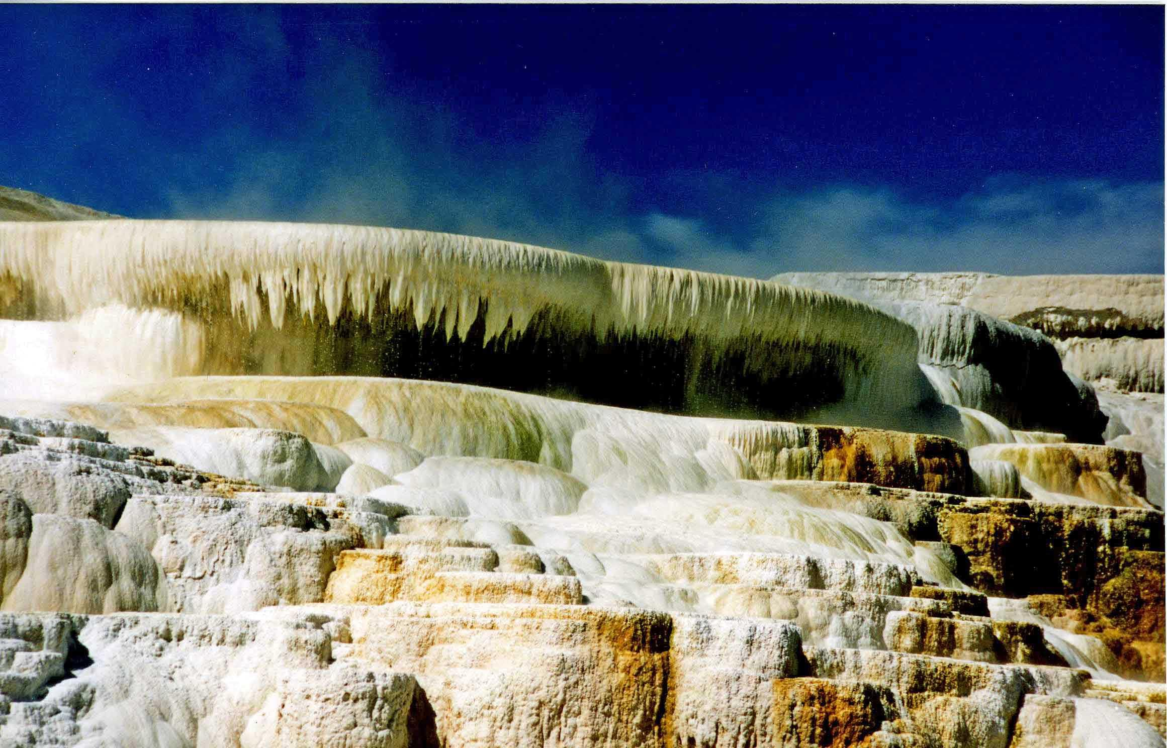 Terraced mineral deposits beneath Canary Spring at Yellowstone National Park